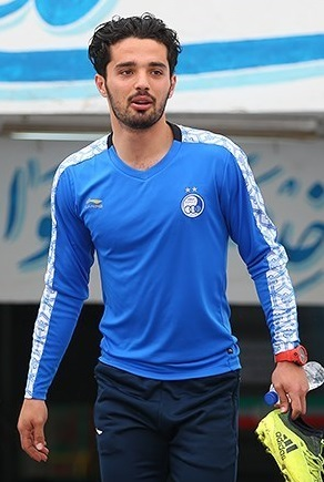 Omid Noorafkan